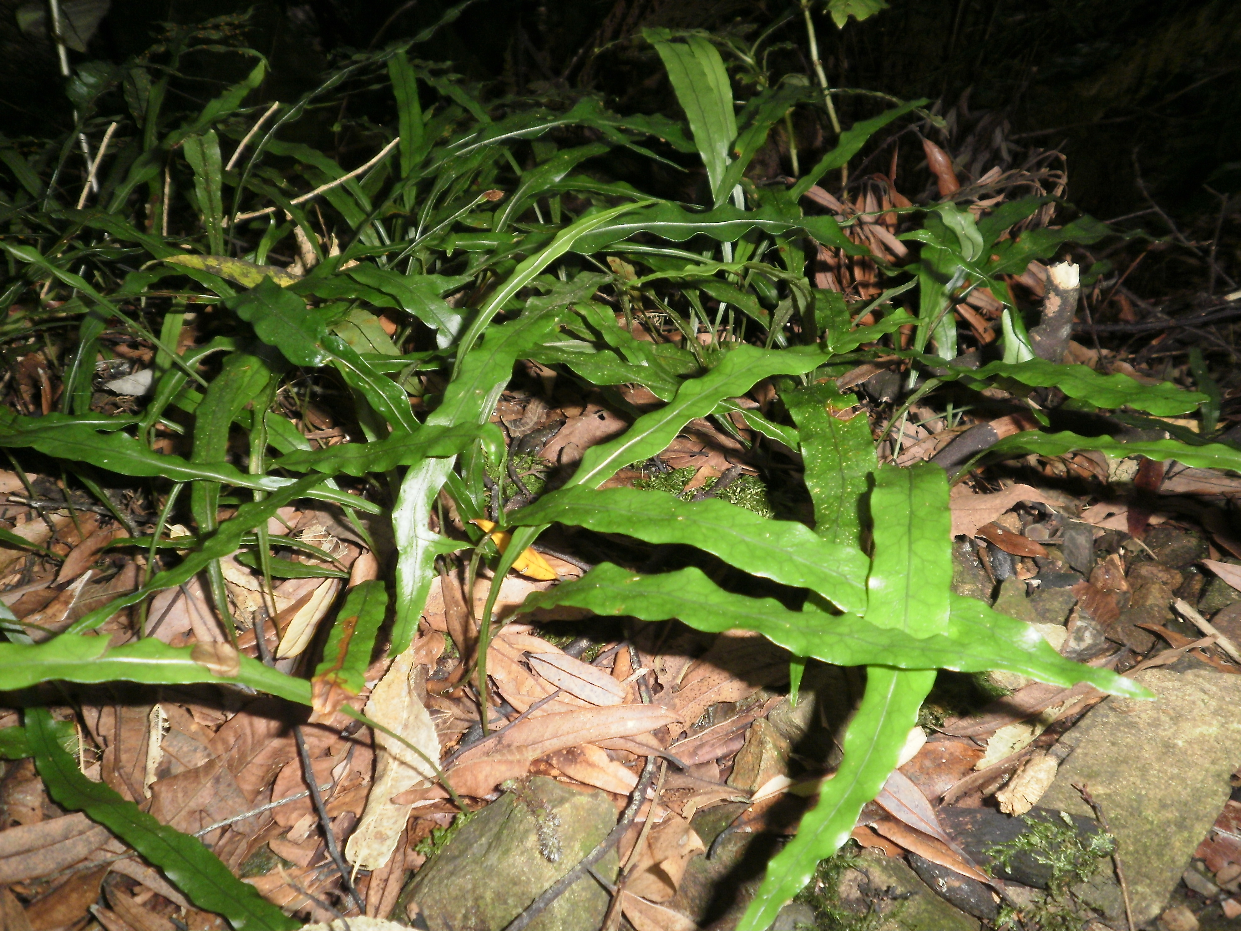 Microsorum scandens, in Upper Hutt forest, New Zealand.